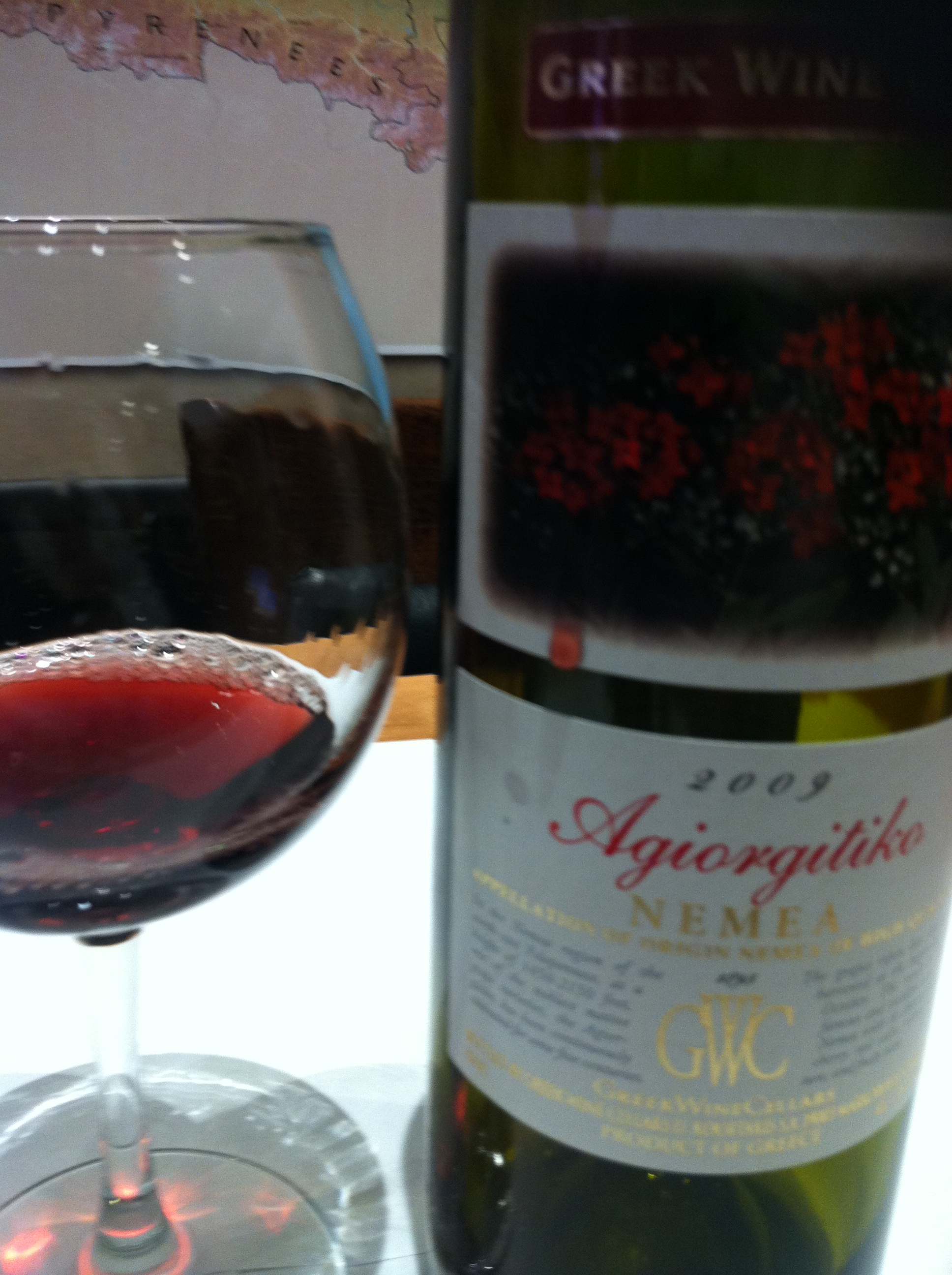 Greek red wine from the Nemea region made from the Agiorgitiko grape